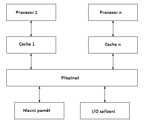 SMP